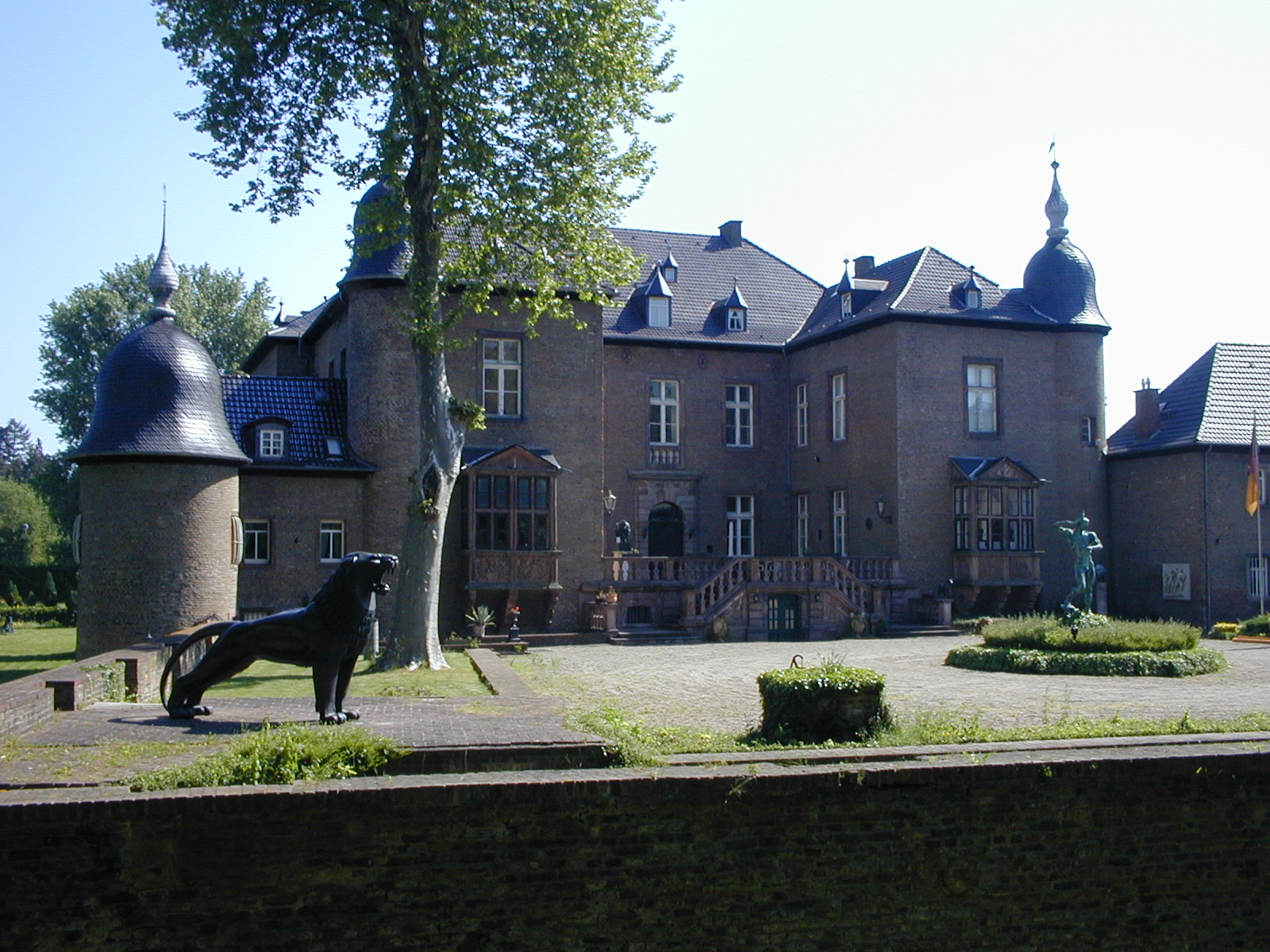 Schloss Nörvenich; im Hof eine Löwenfigur und der Prometheus von Breker. This is a photograph of an architectural monument.